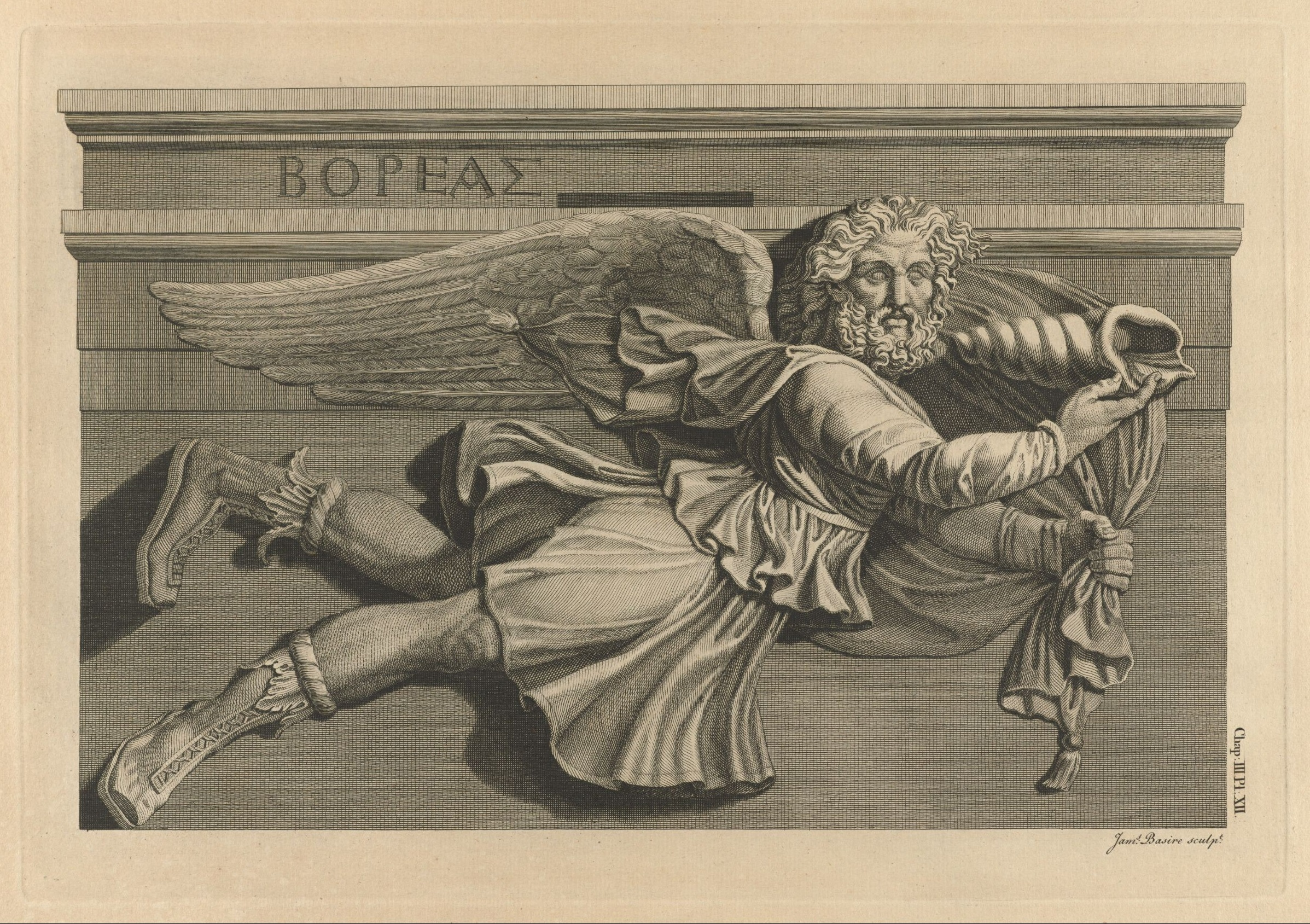 Illustration Vol. 1, Chap. III Pl. XII from Antiquities of Athens (London, 1762), by James Stuart (1713-1788). Arc 705.5, Houghton Library, Harvard University